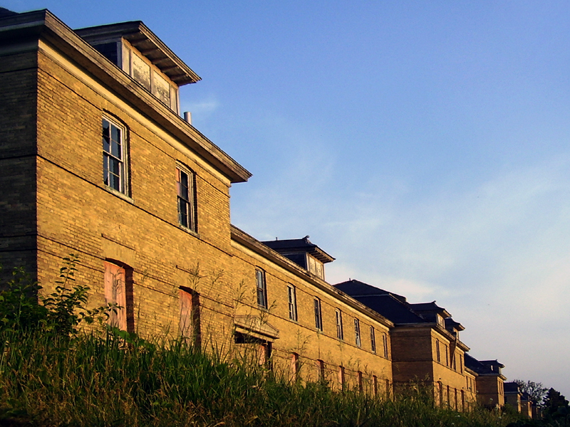 Fort Snelling Upper Post, Barracks. Last occupied during World War II